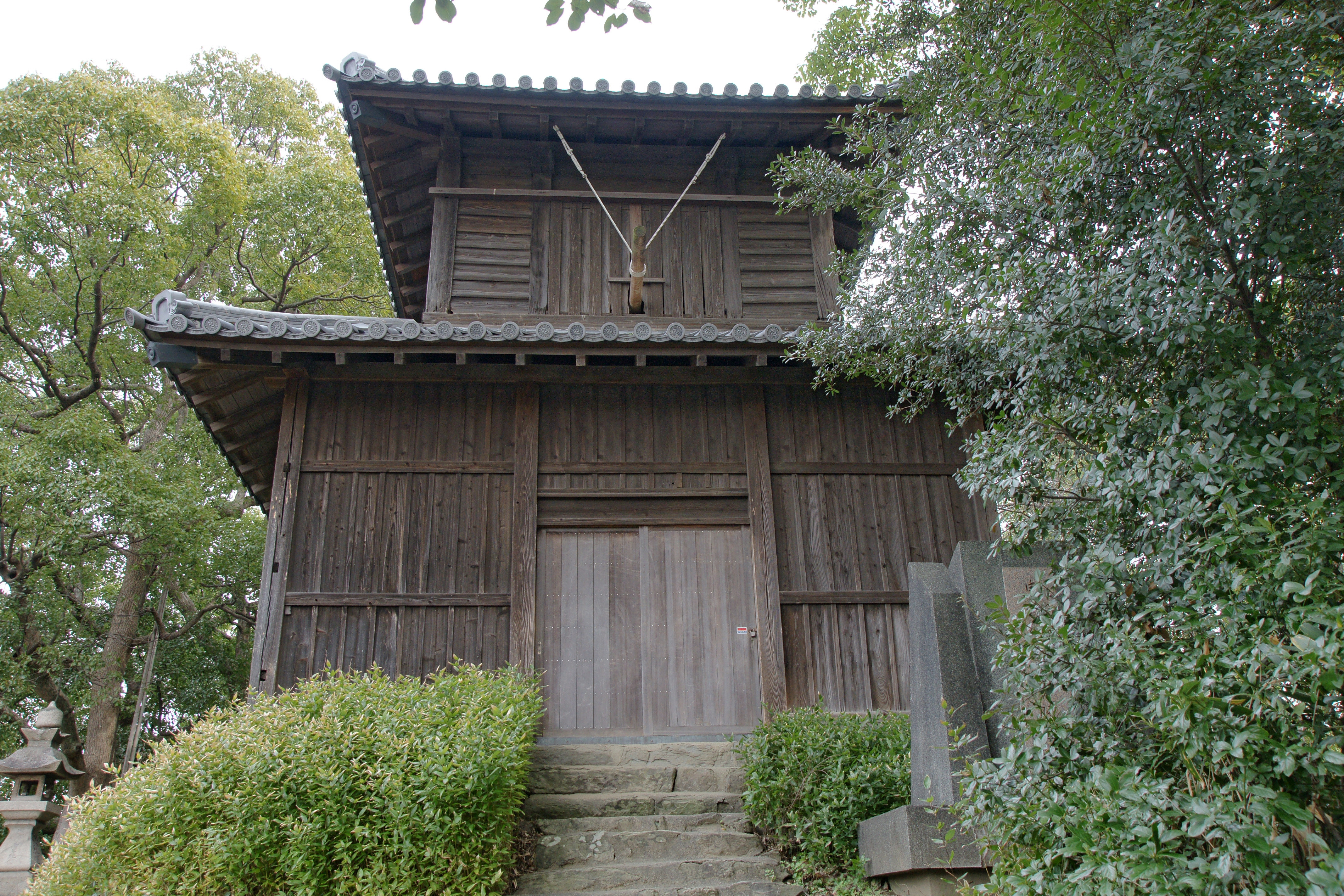 Okayama-no-Jishodo, Wakayama, Wakayama prefecture, Japan